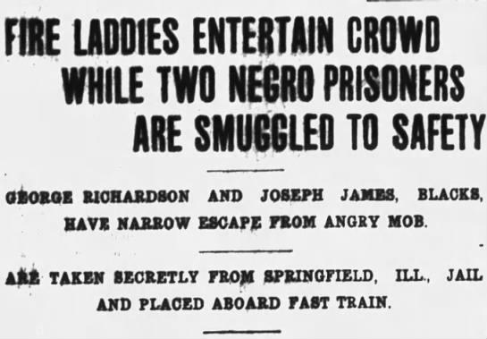 Eau Claire Leader. 15 Aug 1908.